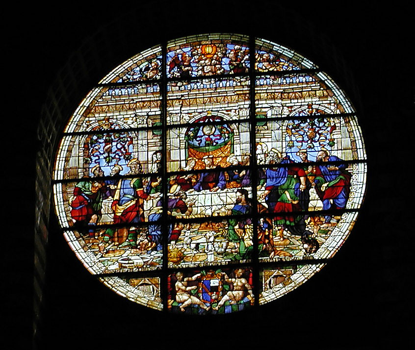 Siena, Rosone del Duomo.